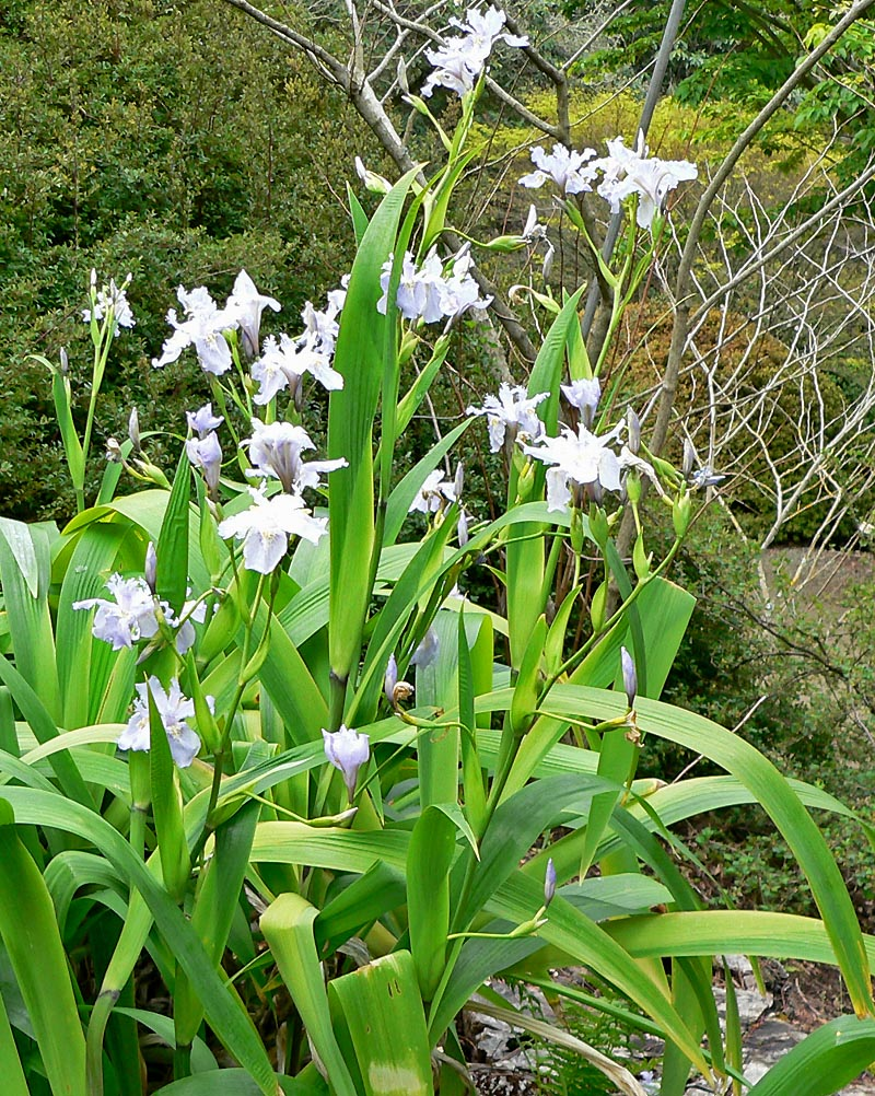 Photo of Iris wattii at the University of California Botanical Garden